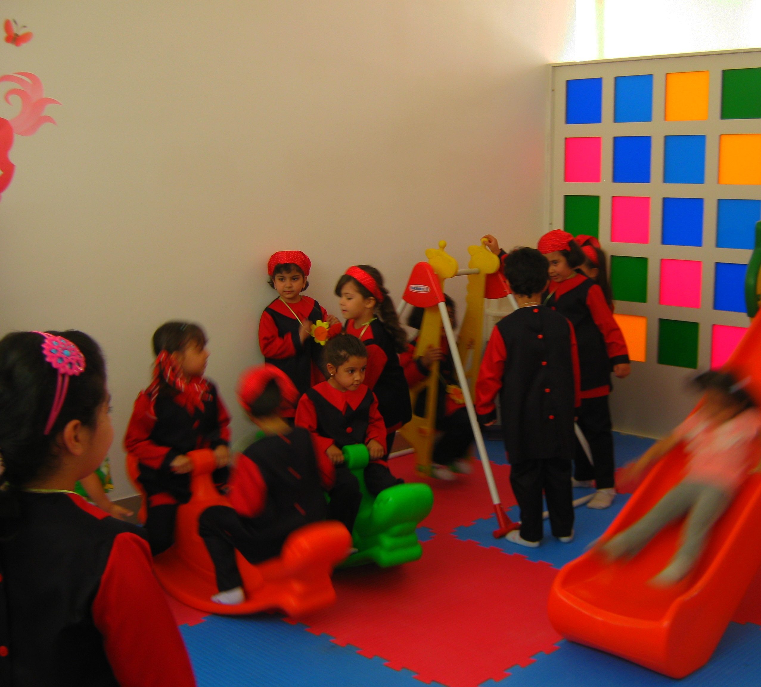 Sama Kindergarten and Elementary School - First day of Iranian new education year - for Kindergarten students and elementary school newcomers - Qods zone(town) - city of Nishapur 076